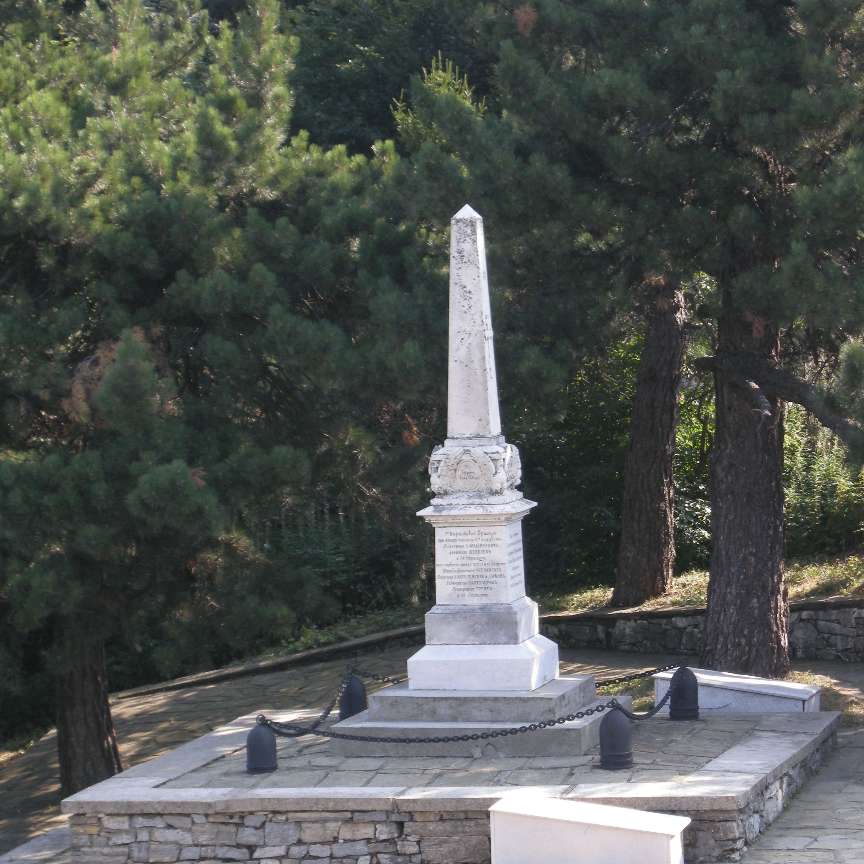 The monument of the russian soldiers, died in the Battle for Shipka pass in 1877, near the peak.